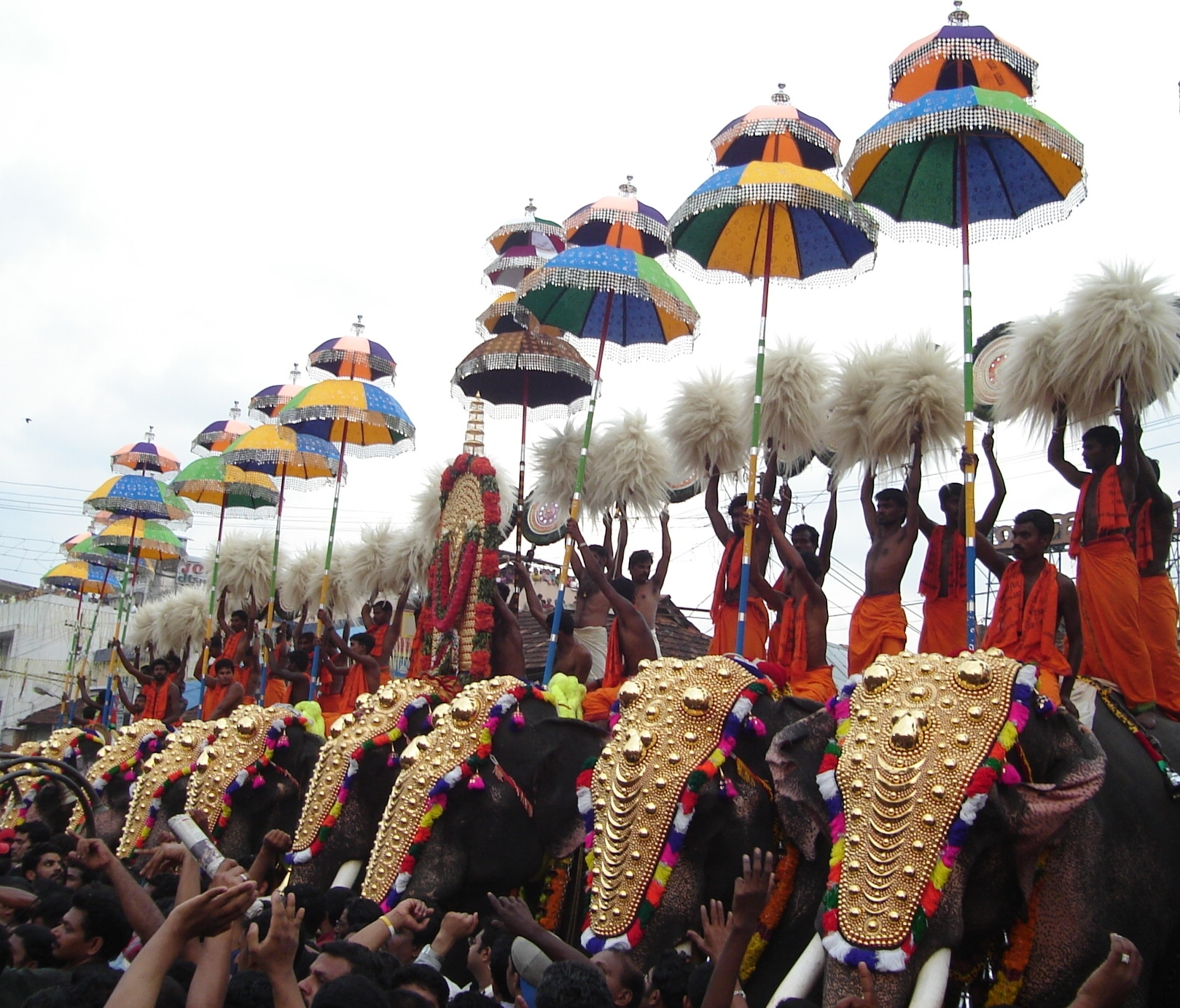 Transferred from wiki Thrissur Pooram Festival (Kuda Mattam), Rajesh Kakkanatt